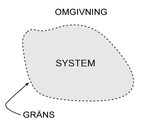 The boundary between a system and its surroundings